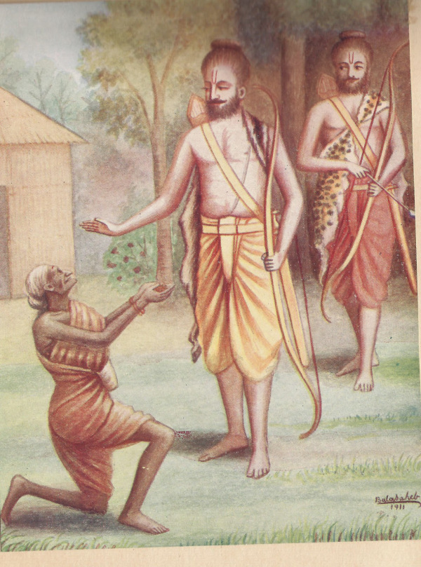 Rama and Laxman continue their search for Sita, moving southwards. An old woman Shabari, who had heard about the virtues and valour of Rama, was waiting to offer him berries, she collected from forest-shrubs. Rama received her gift cheerfully and blessed her. It is said that Shabari actually tasted each of the berries to make sure they were ripe and perfect for consumption by Rama.